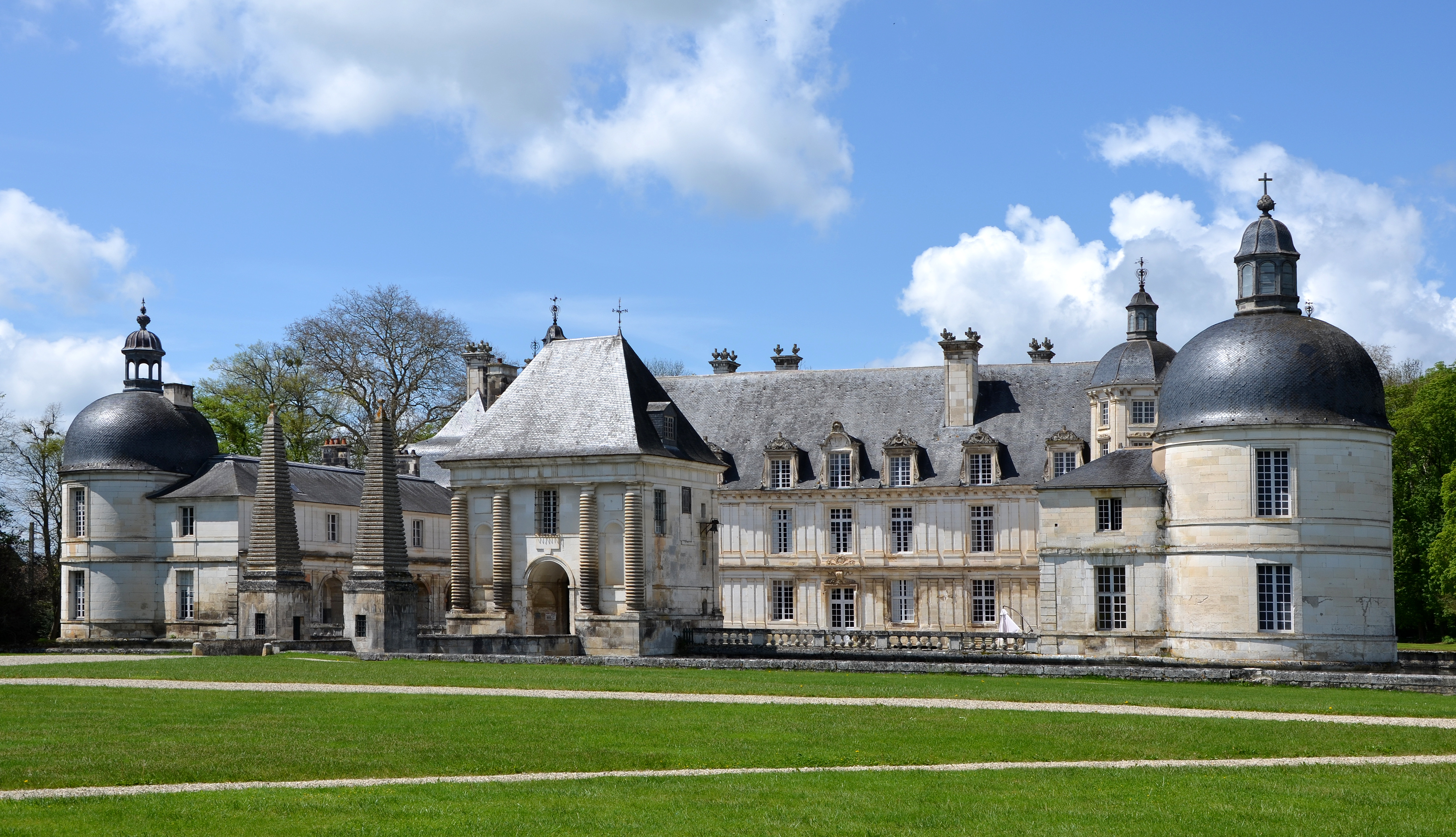 Castle of Tanlay, Yonne, France